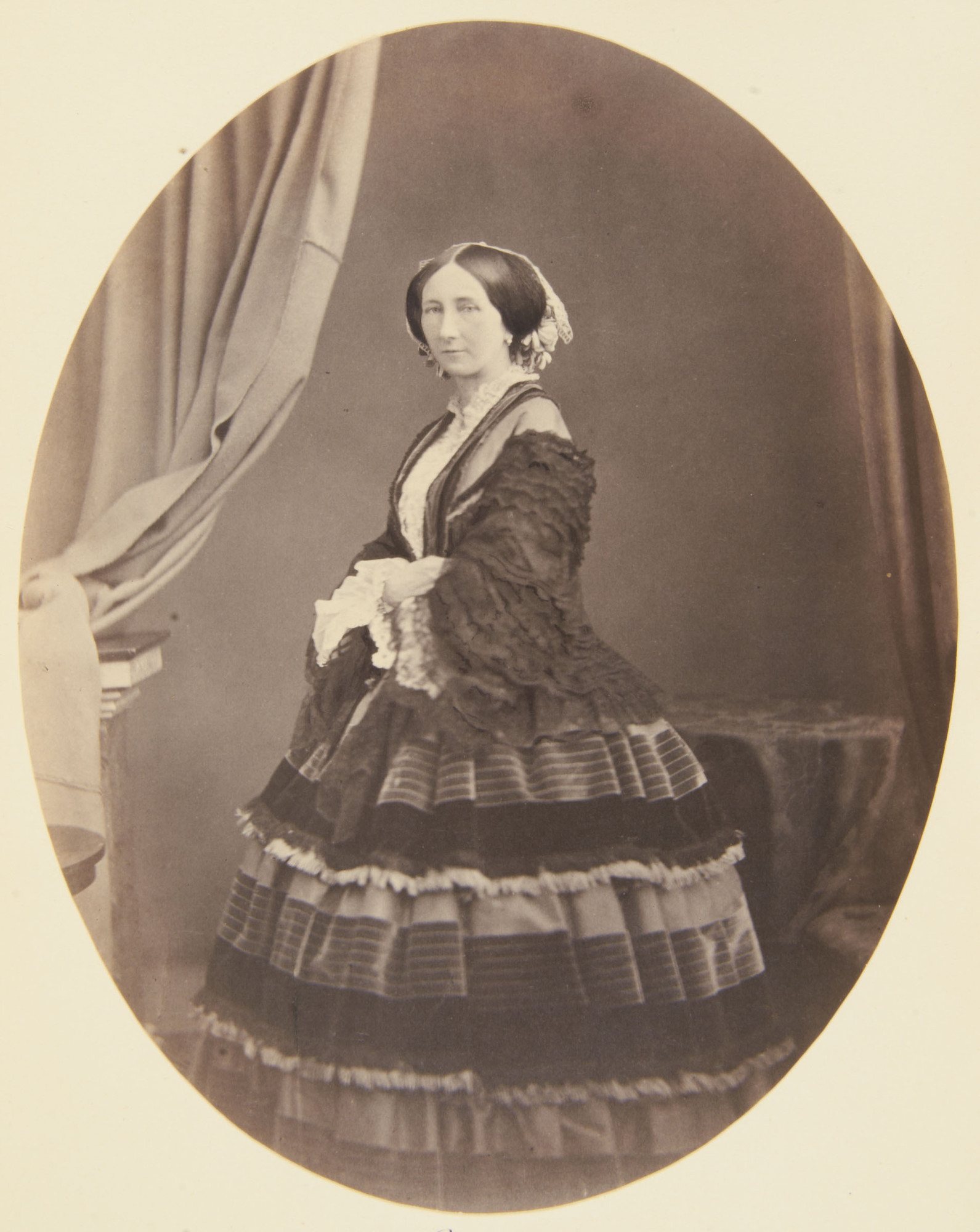 Photograph of Josephine, Princess of Hohenzollern-Sigmaringen, standing three-quarters left, facing the viewer